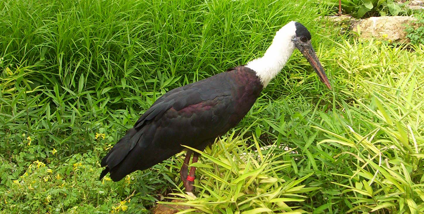 Wollhalsstorch (Ciconia episcopus)